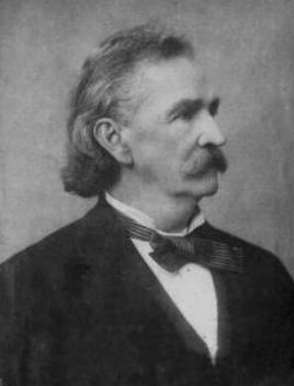 Edward C. Walthall (1831–1898), Confederate General, from